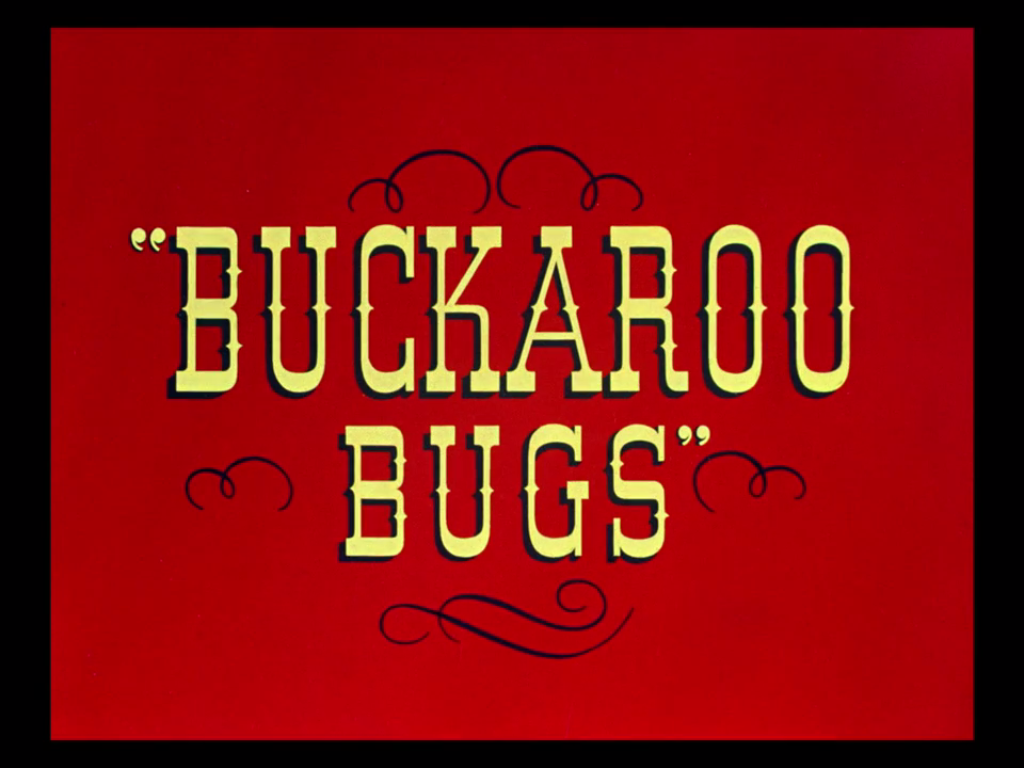 Title card for the Bugs Bunny short "Buckaroo Bugs" - the character's first starring appearance in the "Looney Tunes" series, and the last cartoon to credit Leon Schlesinger.